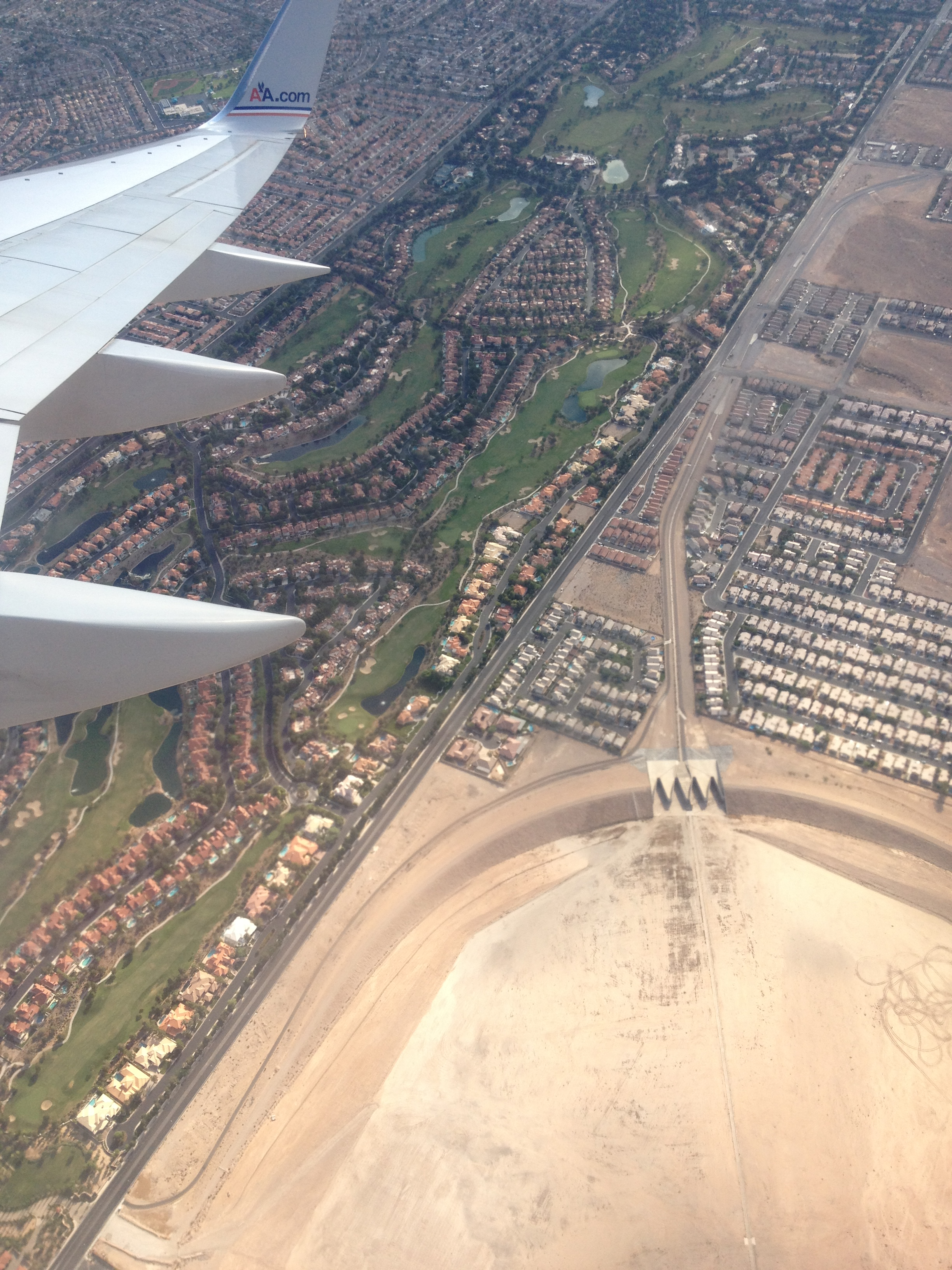 Flood control in Clark County, Nevada.